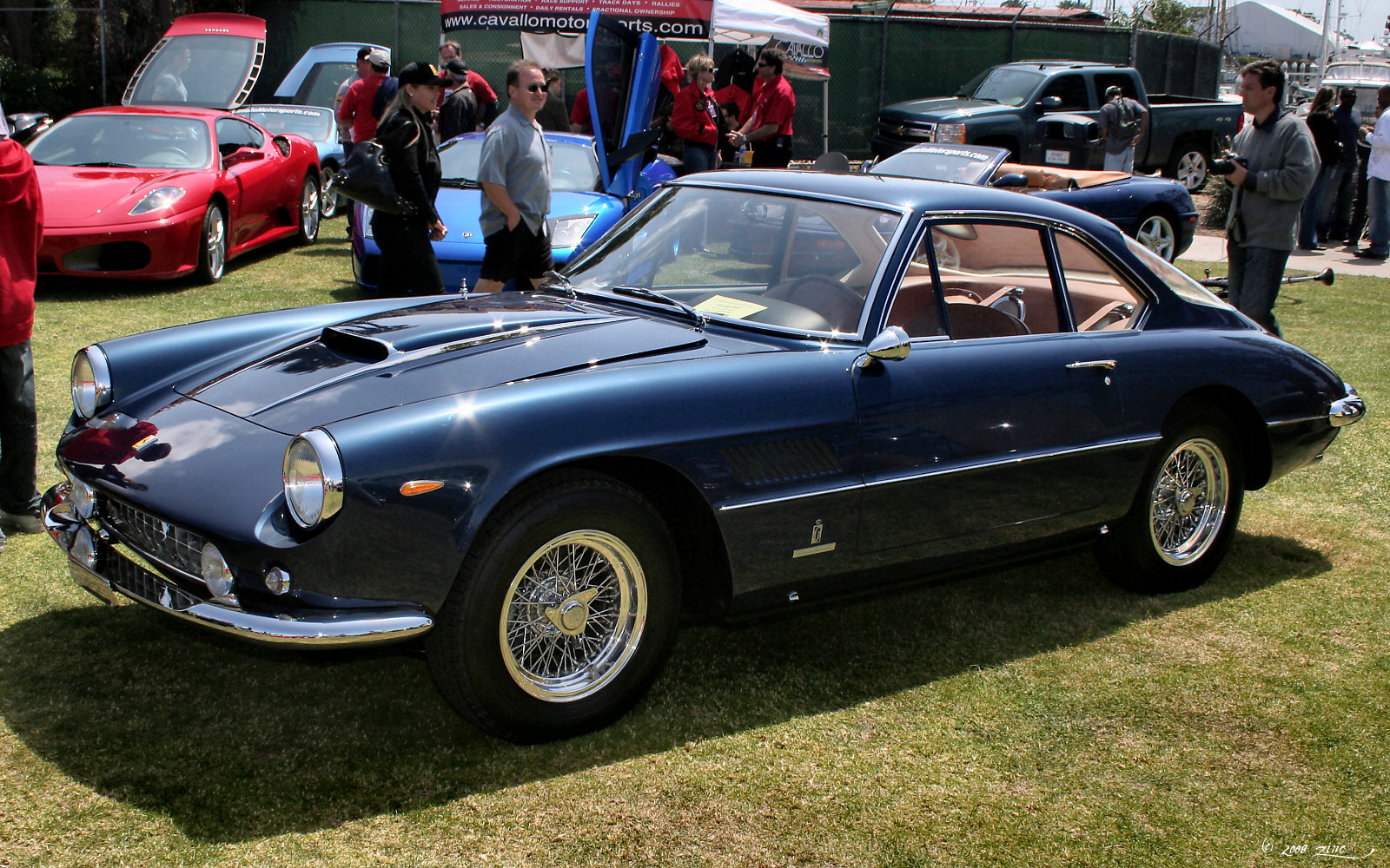 Spanish Landing Park Bella Italian 2008. 1961 Ferrari 400 Superamerica SWB. This is s/n 2841SA, displayed at 1961 Paris Autoshow, then owned in Switzerland and USA, in 2013 auctioned for 2-3 million USD.[1]